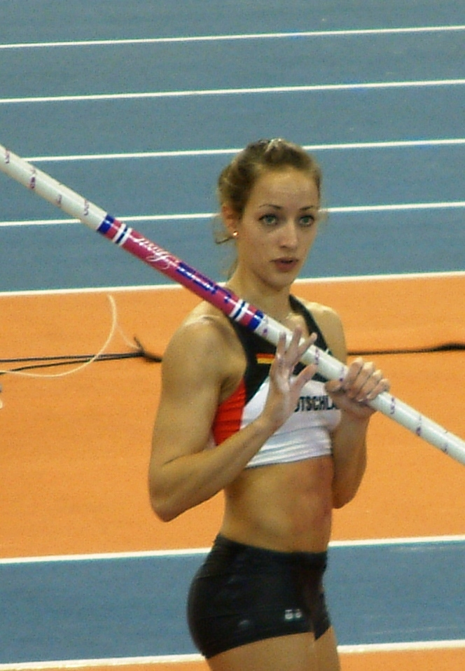 Anna Battke, born on 3 January 1985 in Donauwörth, is a German pole vaulter. This photo was taken at the Women's pole vault final at 12th World Indoor Championships in Valencia, Spain.